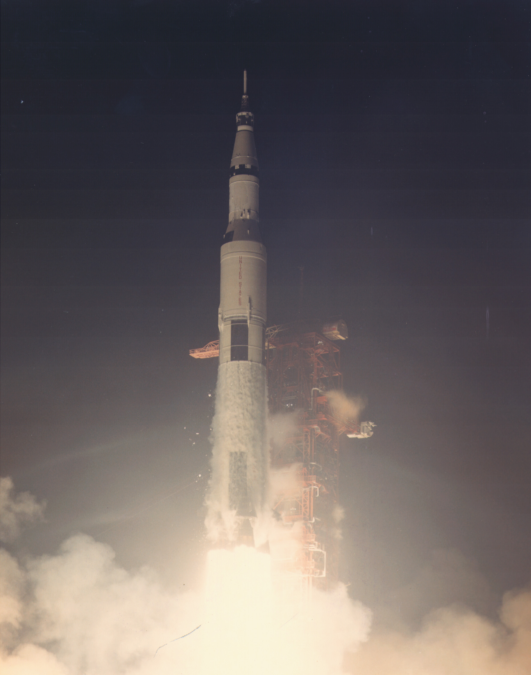 Apollo 17 lift off from pad 39A with astronauts Cernan, Evans and Schmitt.